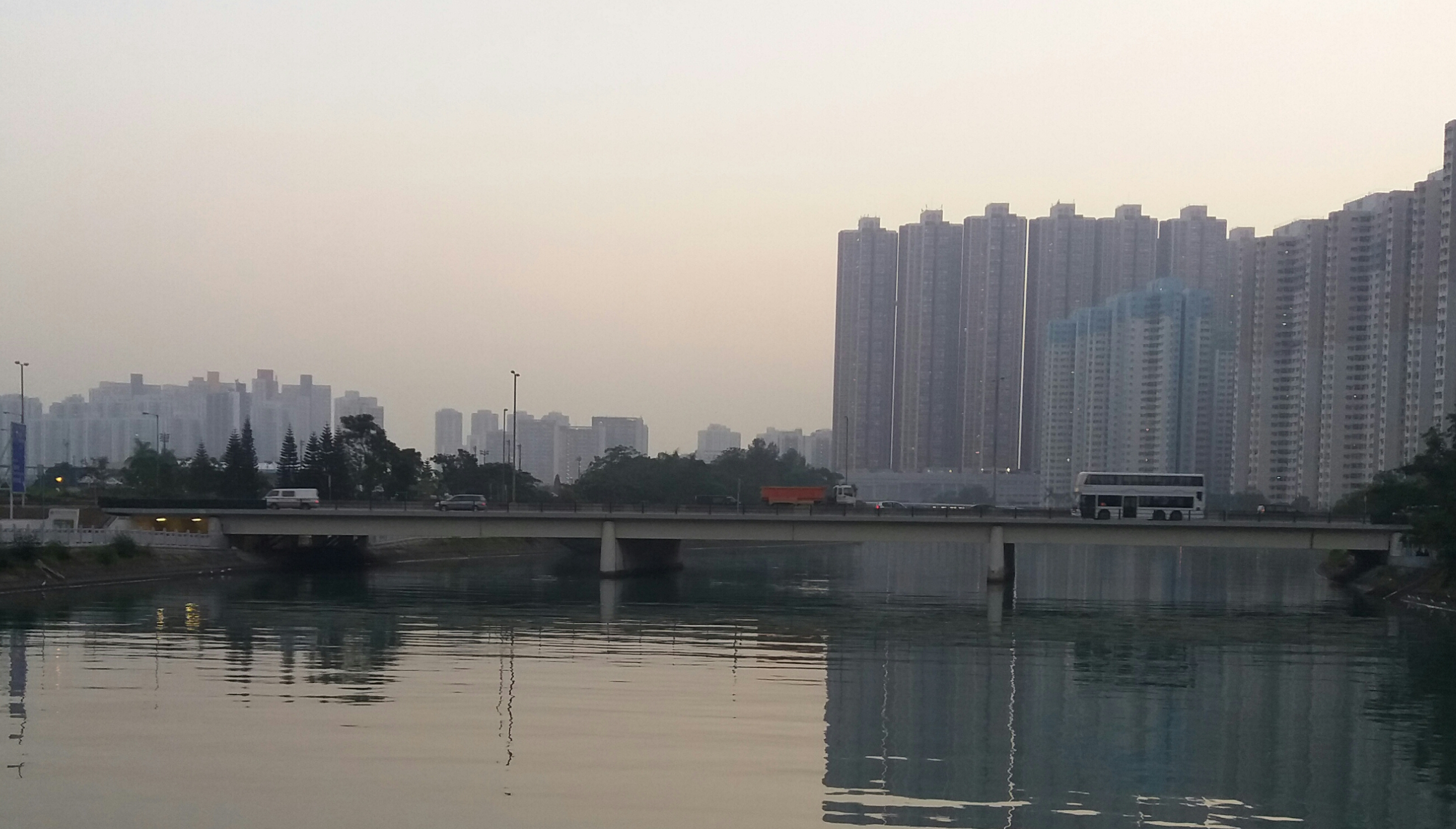 A section of Wong Chu Road that crosses the Tuen Mun River